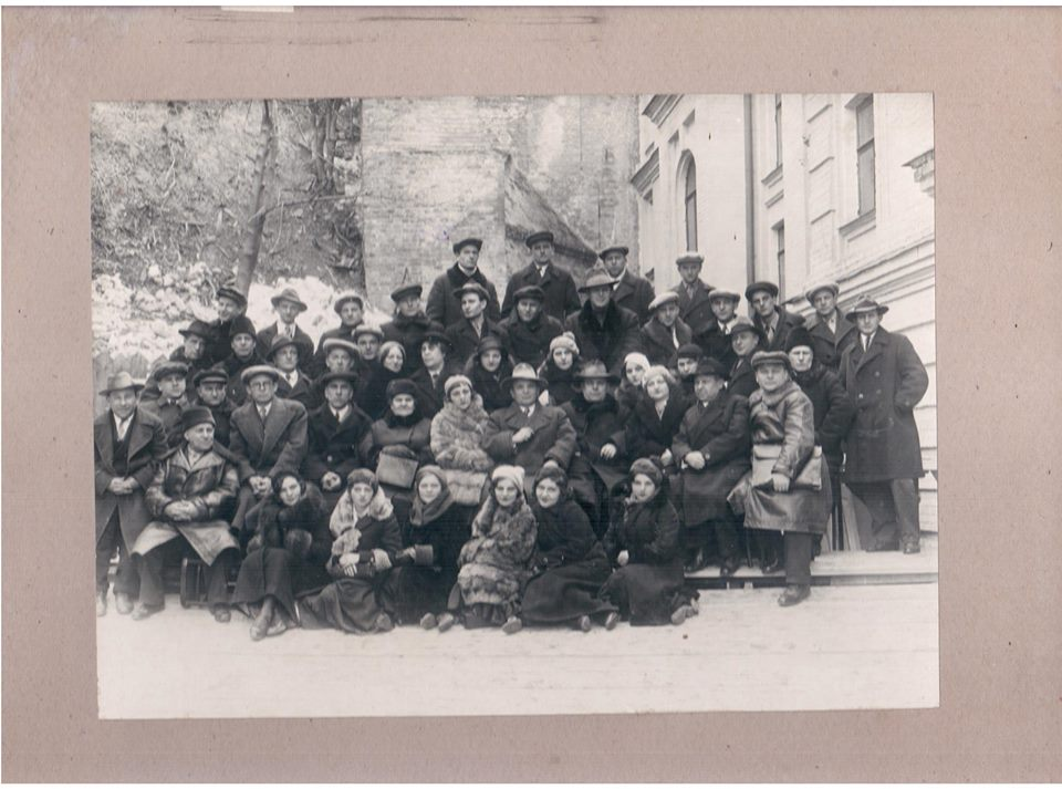 Франківці у 1930-1940 рр.